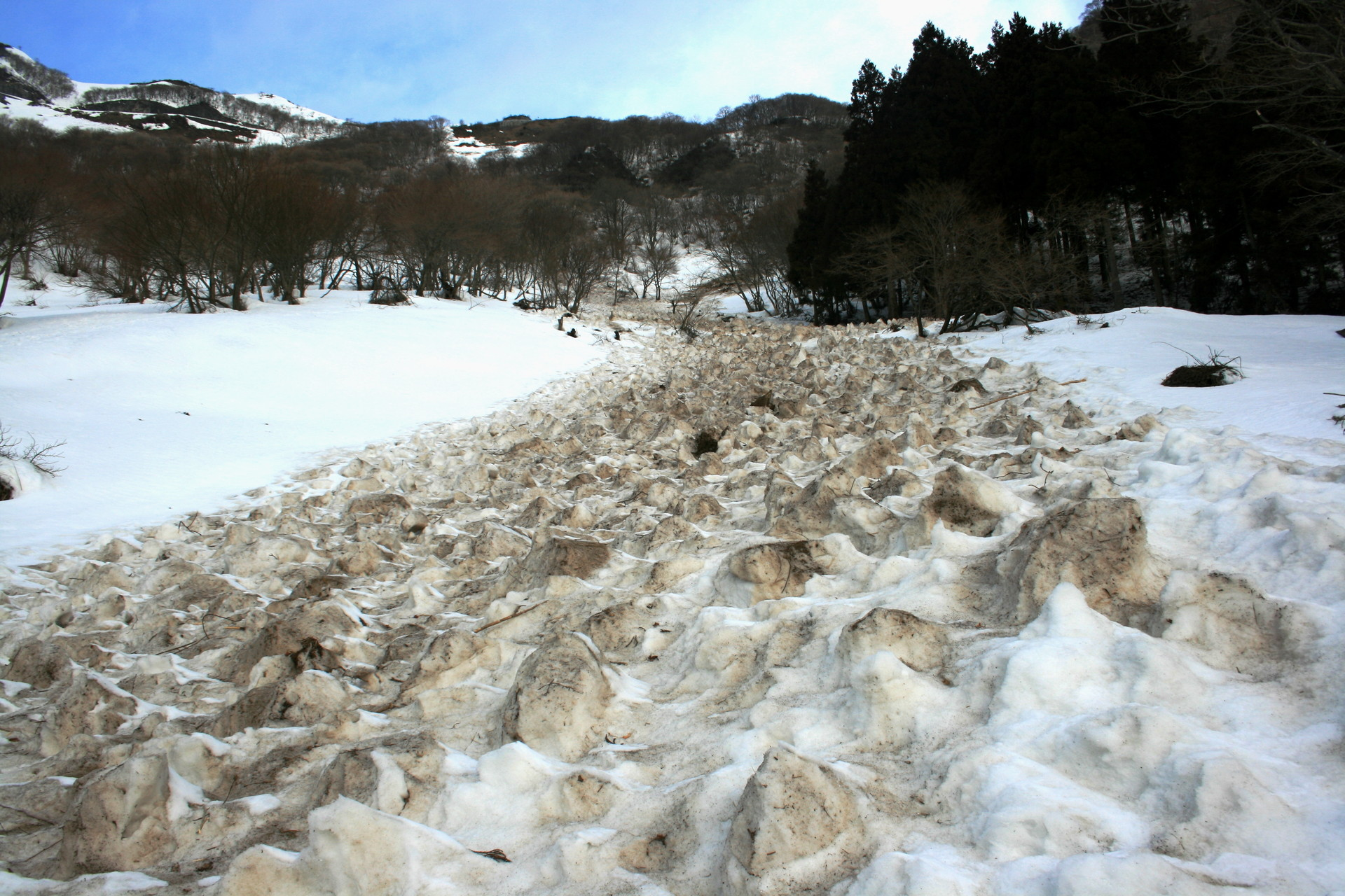 Avalanches in Mount Ibuki